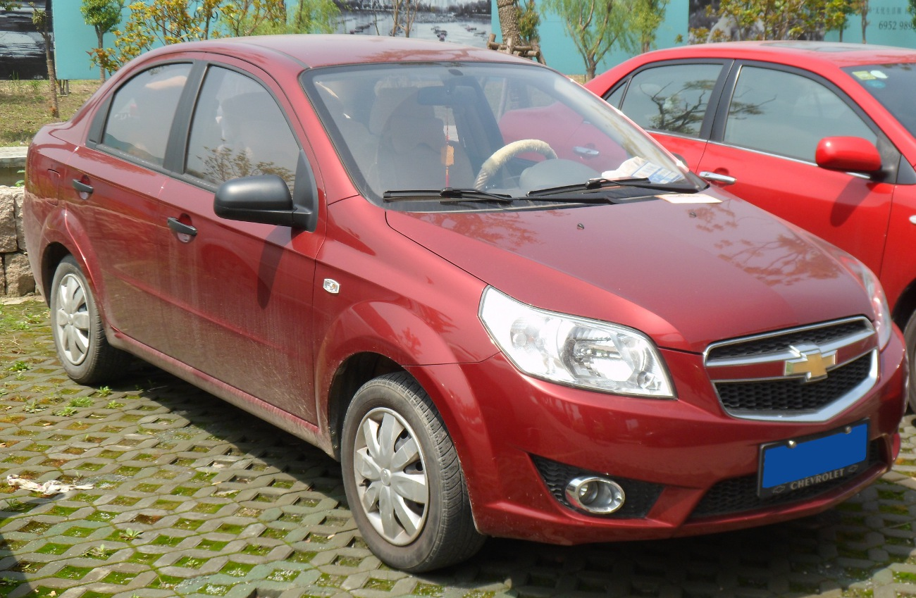 Chevrolet Lova facelift photographed in Shanghai, China.